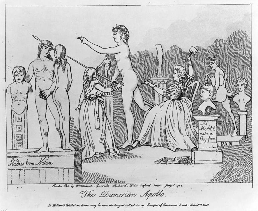 "The Damerian Appollo". Caricature of English sculptor Anne Seymour Damer (1748-1828). LOC description: "Mrs. Anne Seymour Damer chiseling the posterior of a large Apollo, who is holding a spear; as a little girl gazes at the Apollo in astonishment. On a pedestal are two nude figures, one full-face, the other in quasi-back view. Beside them is an armless torso on a terminal pillar. On the right is a bust of a child's head on a pedestal inscribed "A model to make a boy from." Behind Mrs. Damer is a grinning figure of Pan, on tall pedestals are a Hercules, a headless figure, and a bust. All the figures in the studio are completely nude."